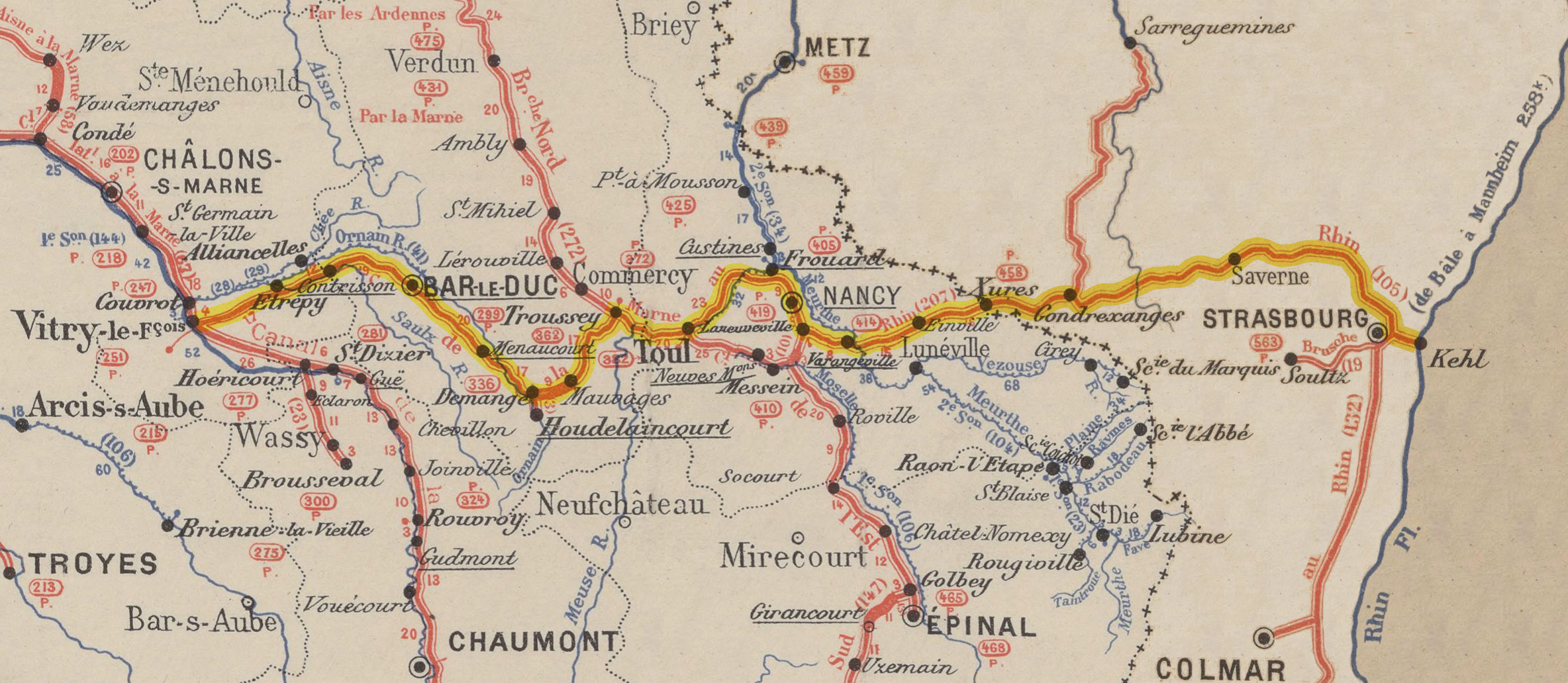 Map of the Marne-Rhine Canal